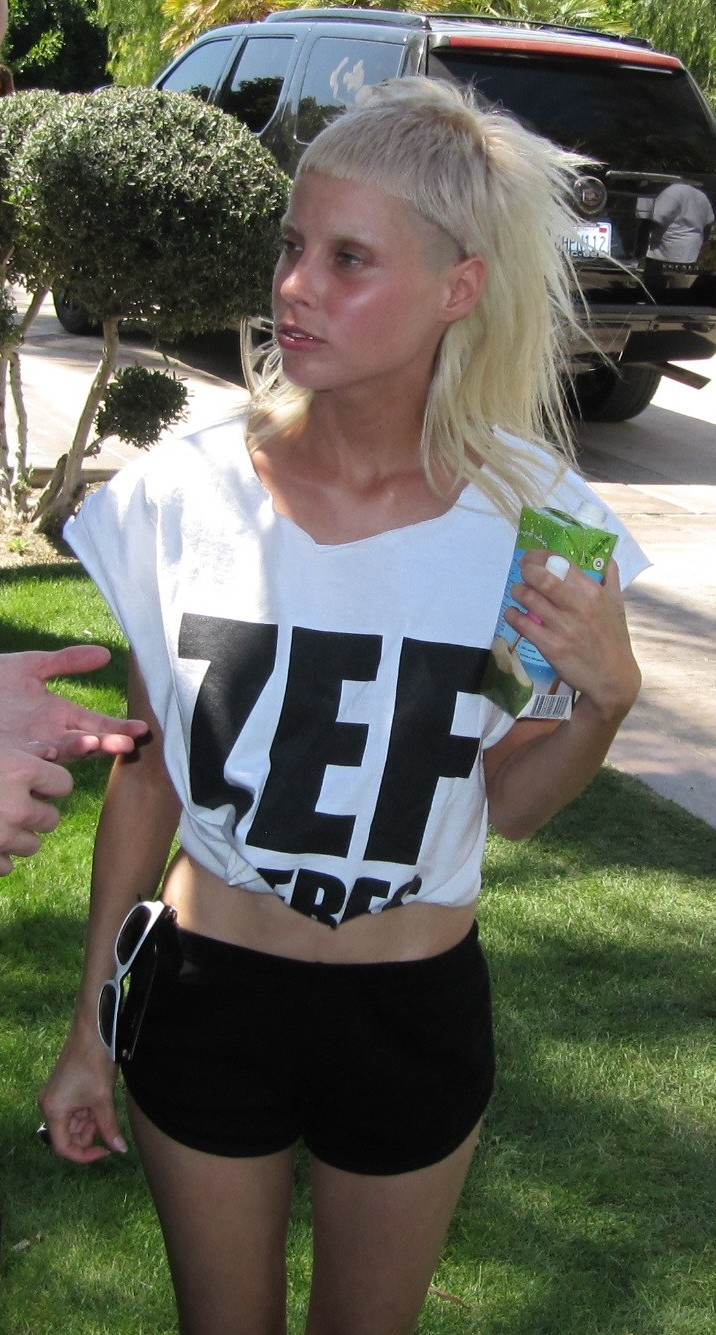 "Xeni and Philip chat with Yo-Landi of die Antwoord during an interview at the Coachella Oasis 2010" (original description at the Flickr source)